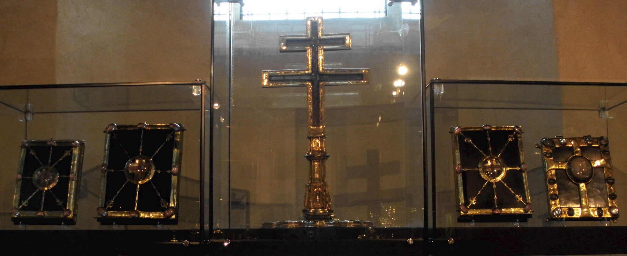 View of the interior of the upper chapel of the Treasury of the Basilica of Saint Servatius, Maastricht, Netherlands. In the middle a 15th century silver patriarchal cross with particles of the Holy Cross.